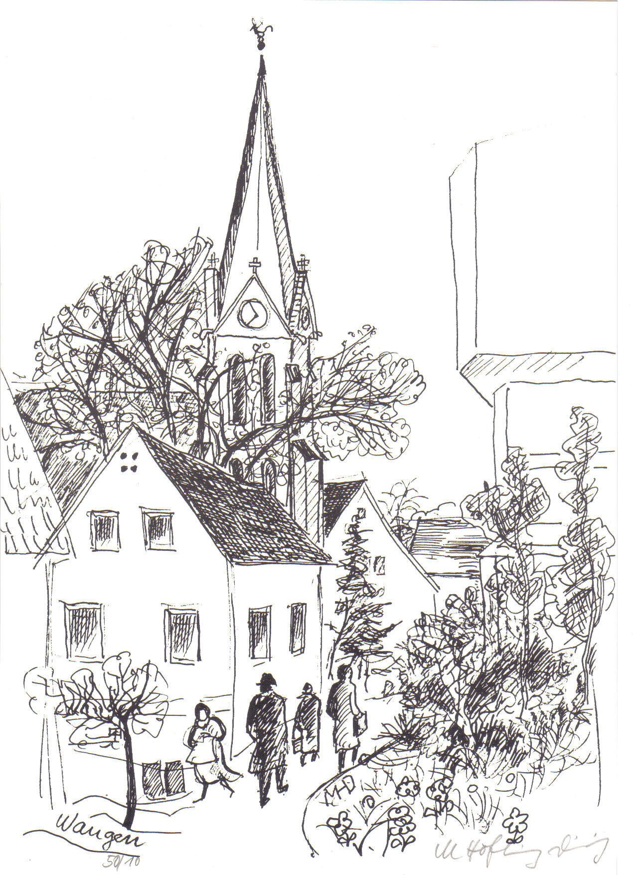 Wangen near Göppingen, Ink drawing, 20 x 30